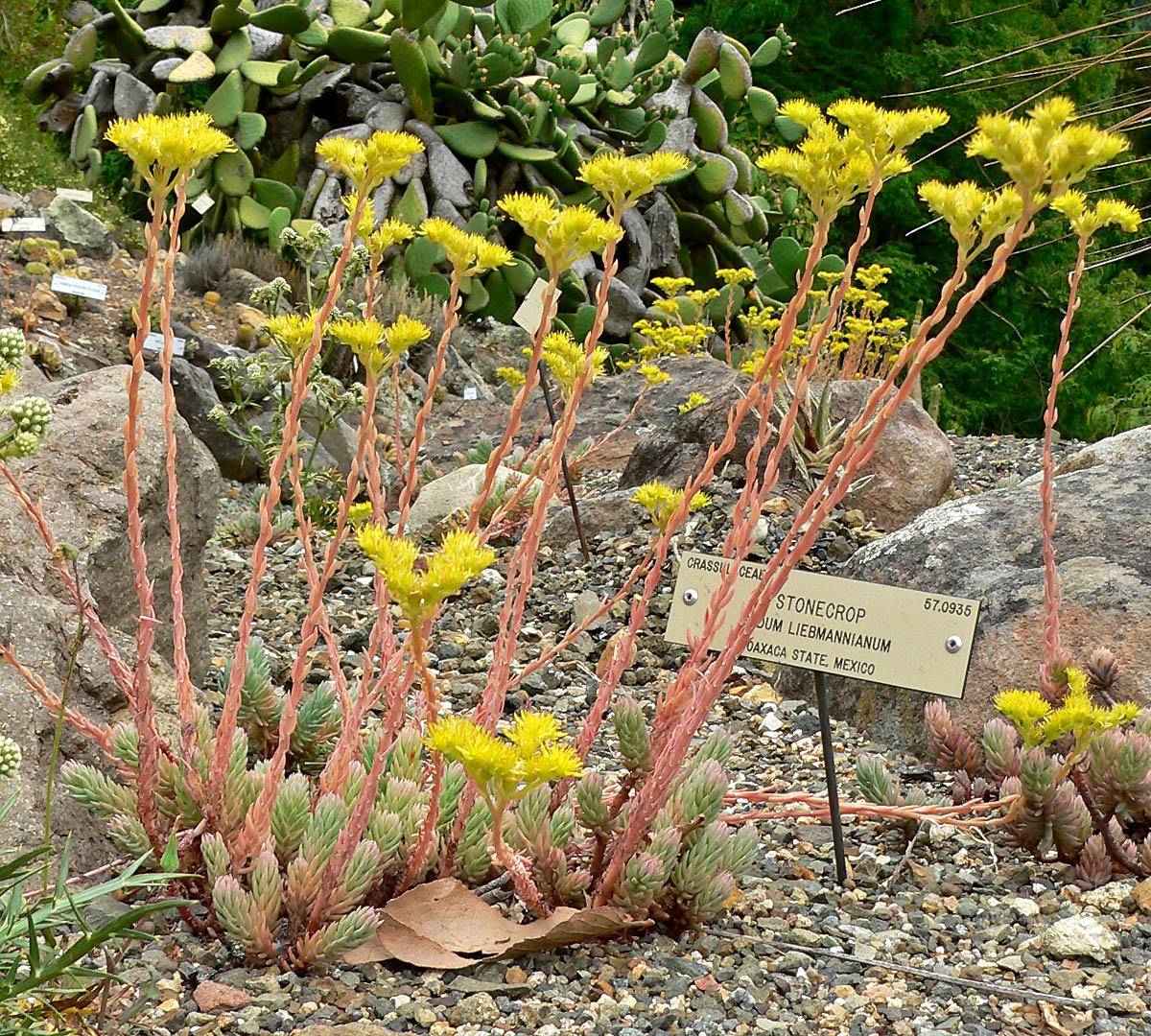 Photo of Sedum liebmannianum at the University of California Botanical Garden